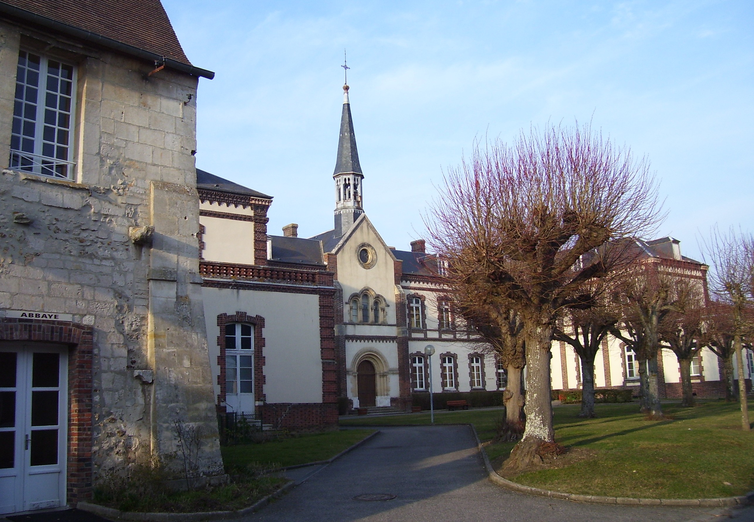 Abbey of Conches-en-Ouche (departement Eure, Normandie, France) at the local hospital.